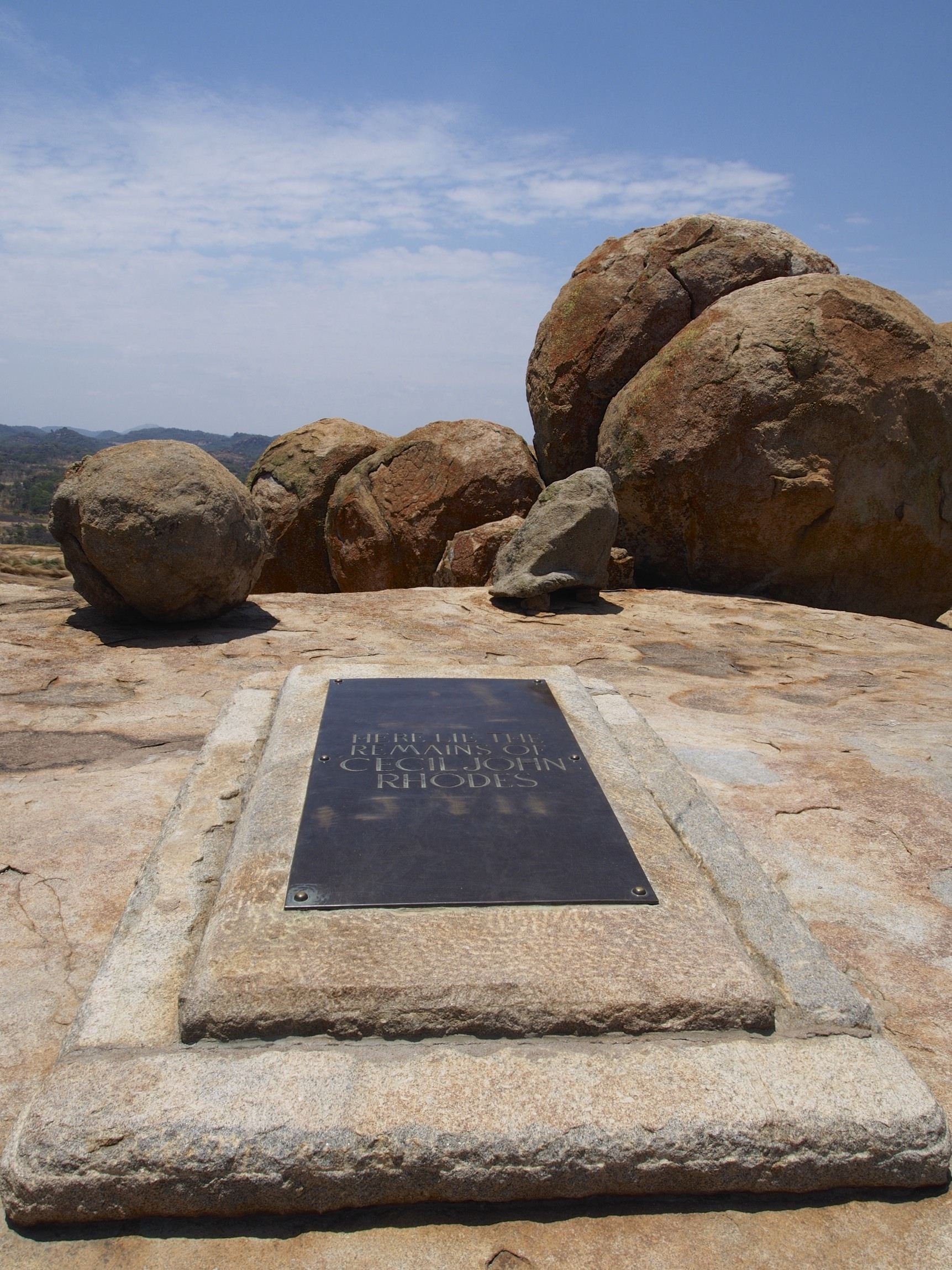 Tomb of Cecil John Rhodes, Matopos Hills, Zimbabwe.